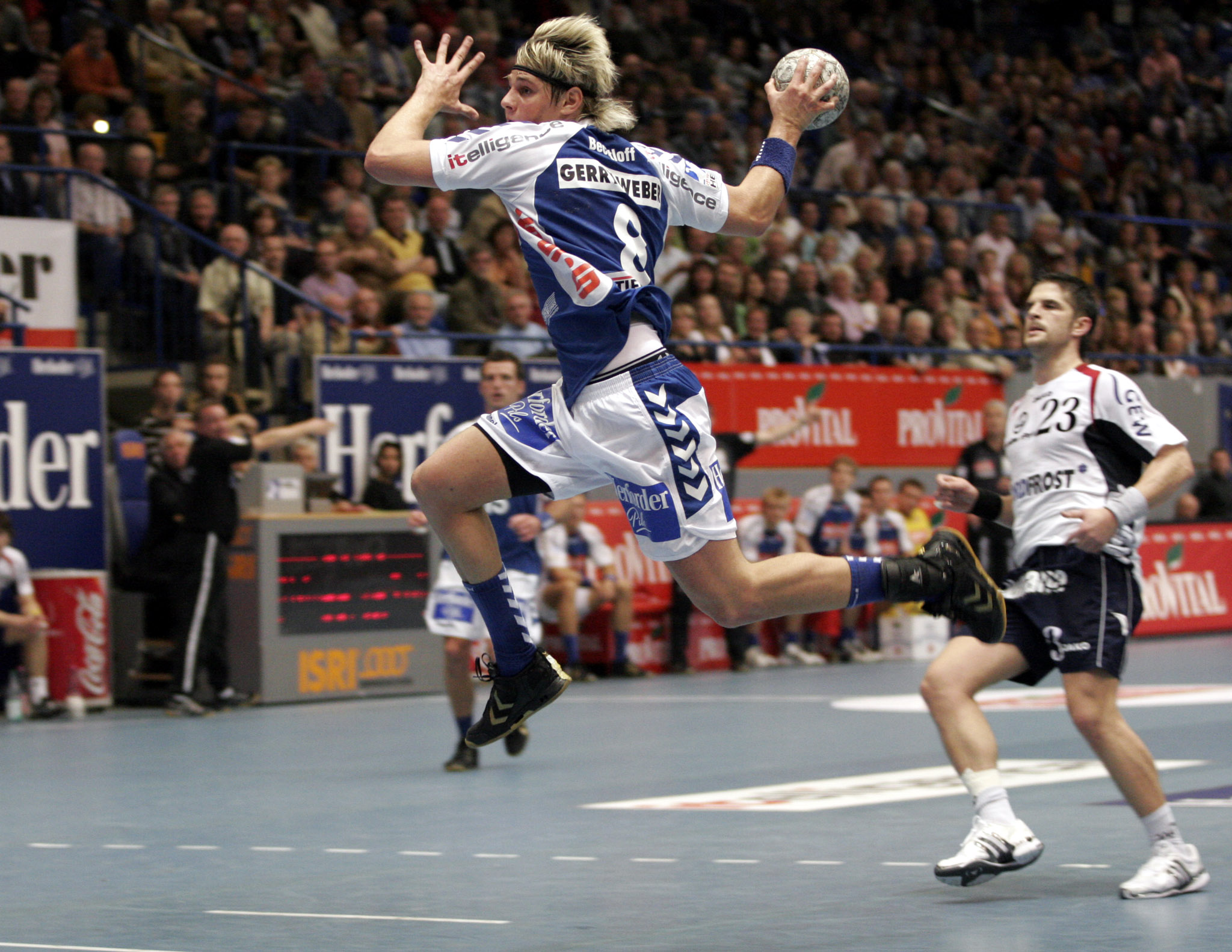 MJens Bechtloff, handball player of TBV Lemgo (Germany), in the Lipperlandhalle during the match TBV Lemgo vers. Wilhelmshavener HV on October 13th, 2007